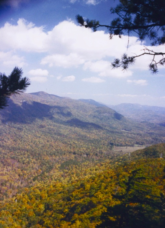 photograph, Rim of the Gap Trail, Jones Gap State Park, Greenville County, South Carolina, USA